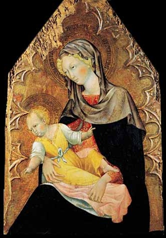 Giovanni di Paolo - Madonna and Child (Monte dei Paschi di Siena). Part of the Monte dei Paschi altarpiece.